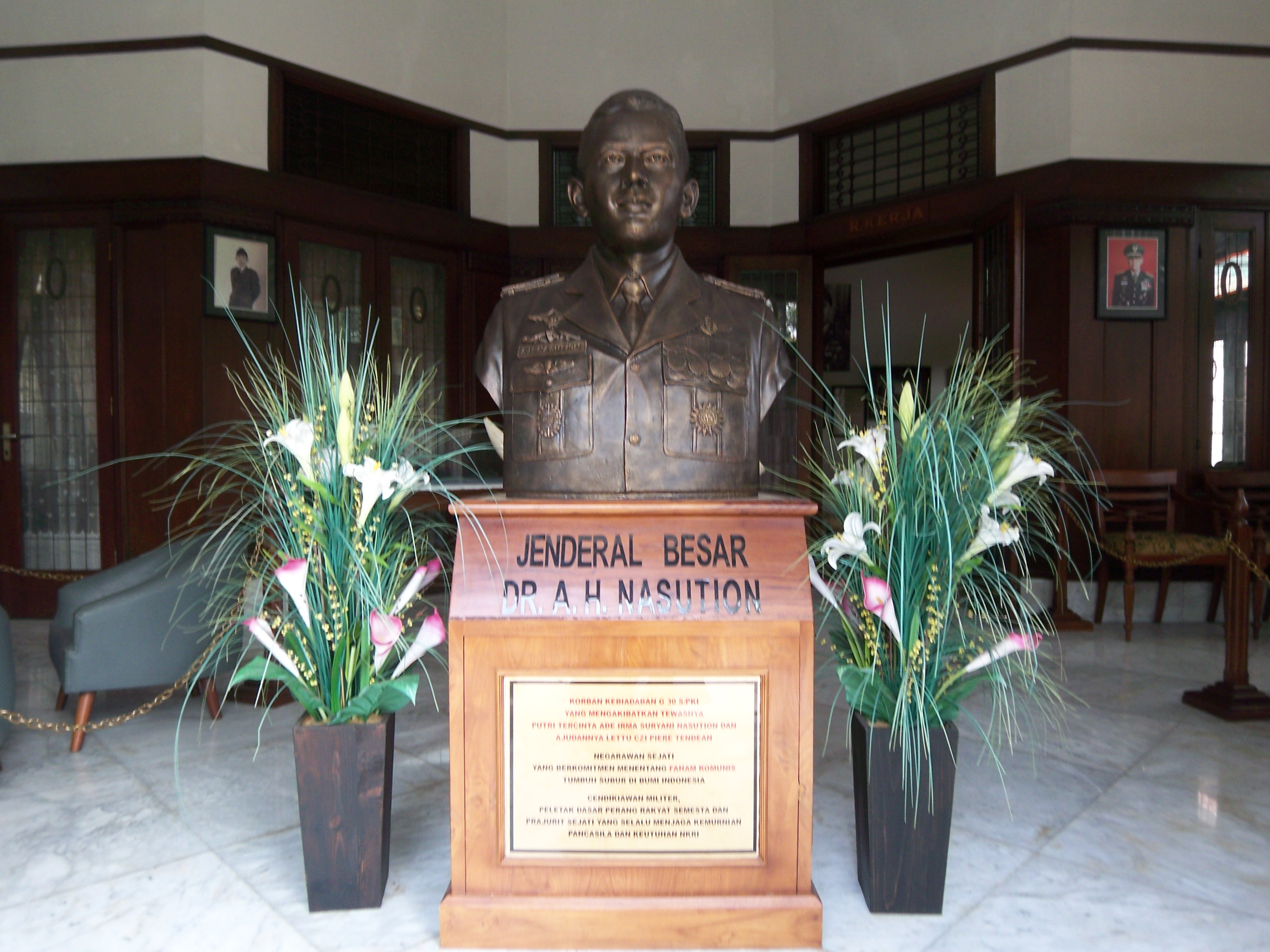 The statue of Pak Nasution in front of the main building of the museum.